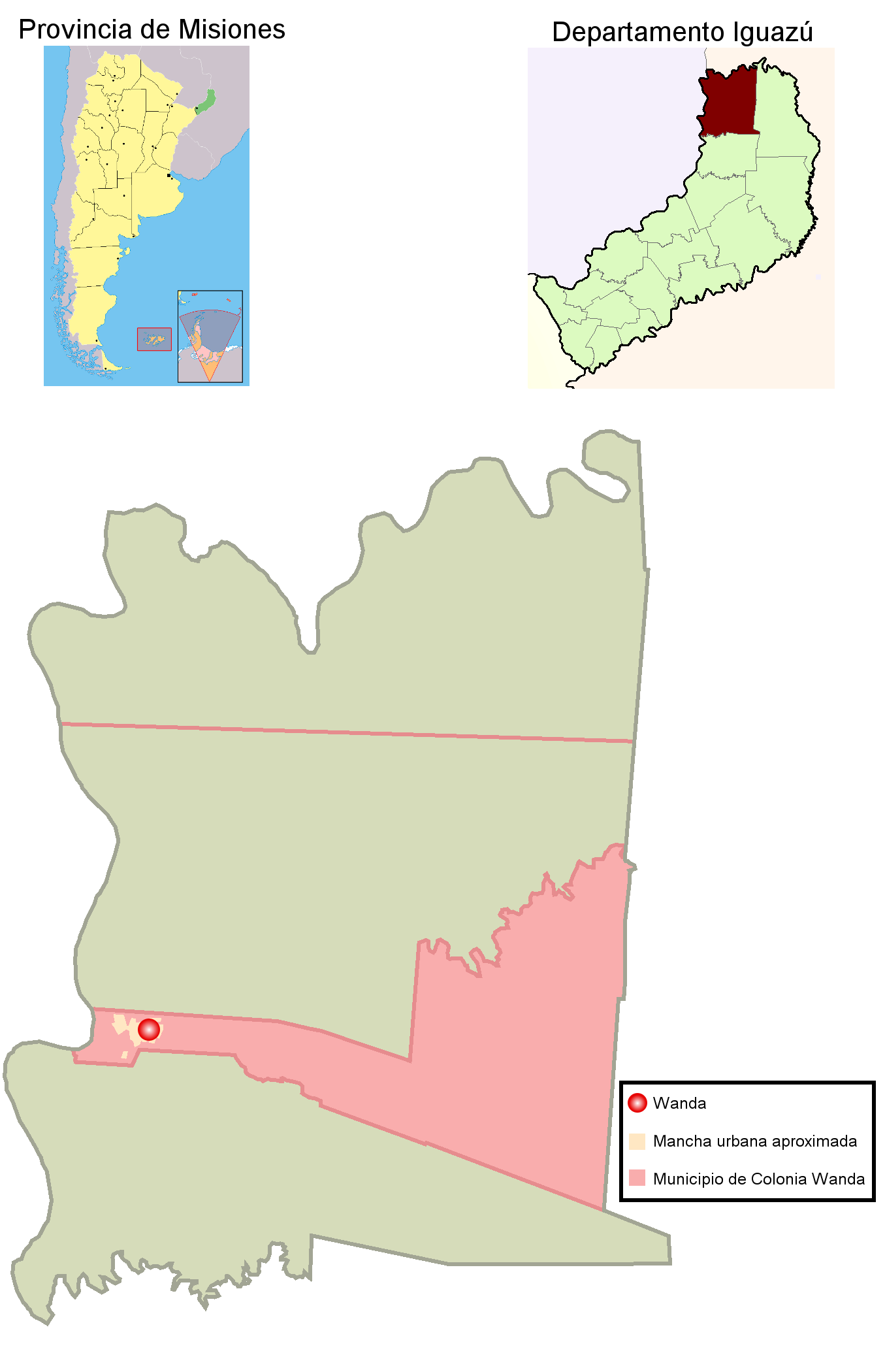 A map showing municipio of Colonia Wanda in Iguazú departament, Misiones province, Argentina. Also shows Wanda town location and its urban sector. Created with GIMP.